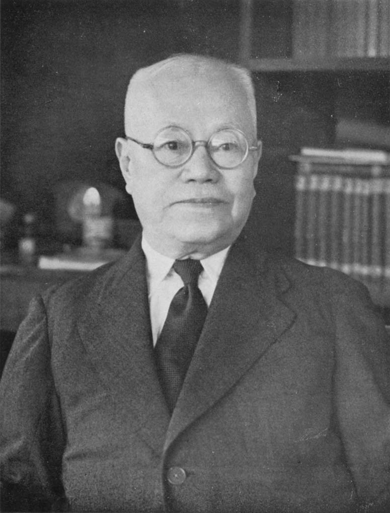 Recent portrait of Dr. Iwazō Ototake.